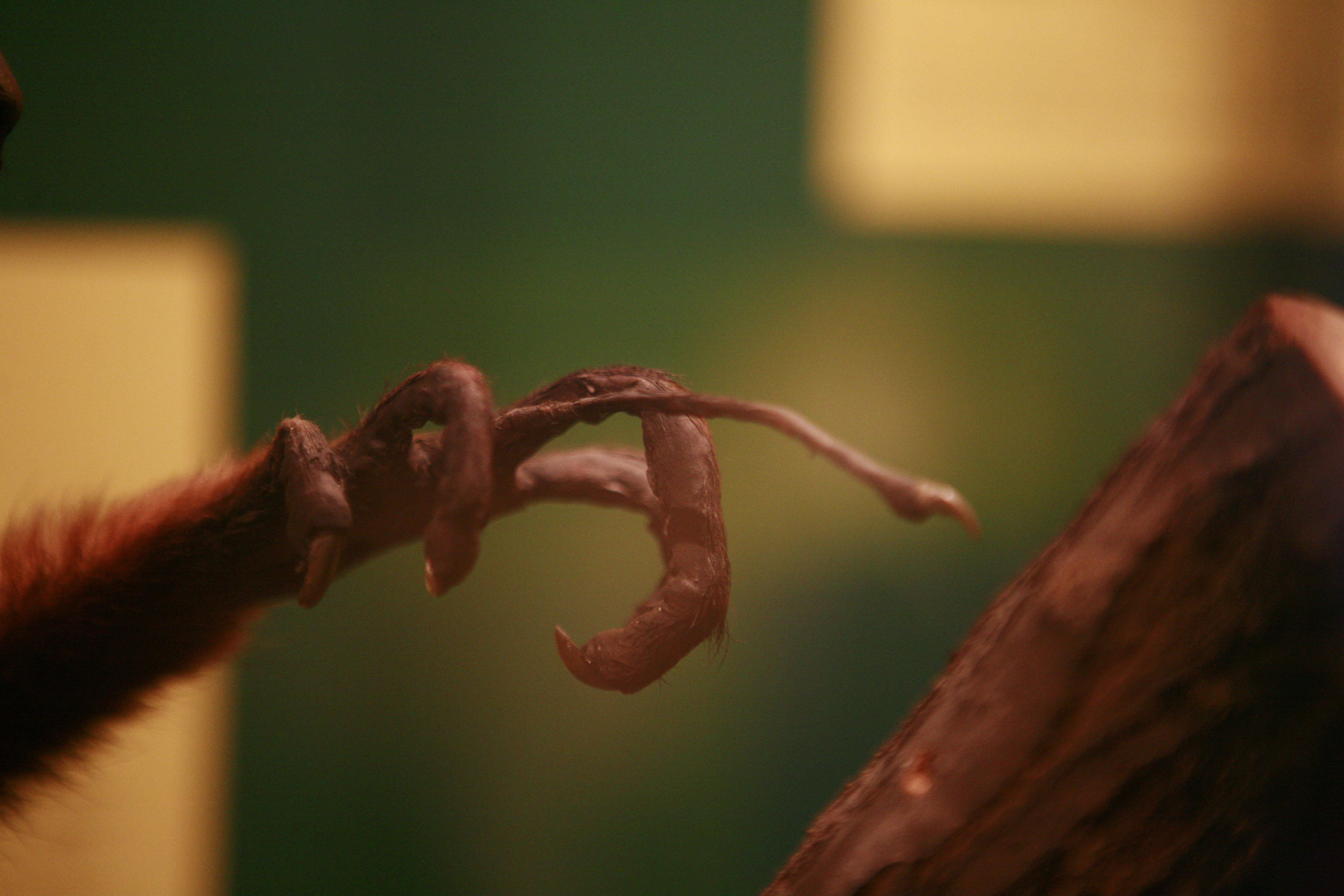 Daubentonia madagascariensis